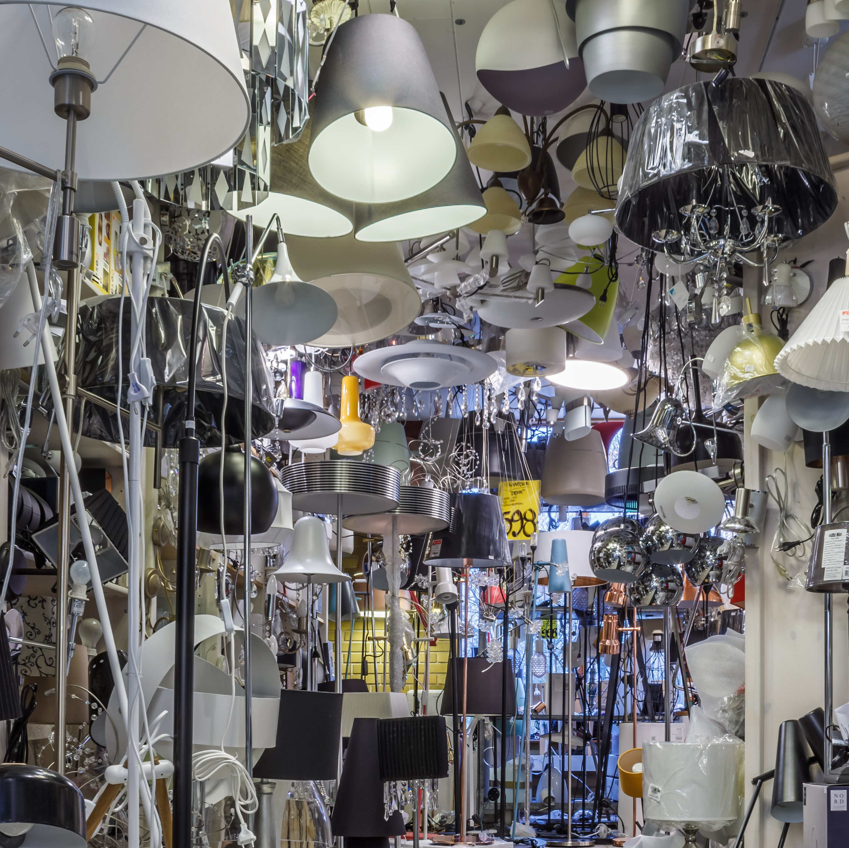 Lamps in the lamp shop, EM Belysning Aps in Viborg, Denmark